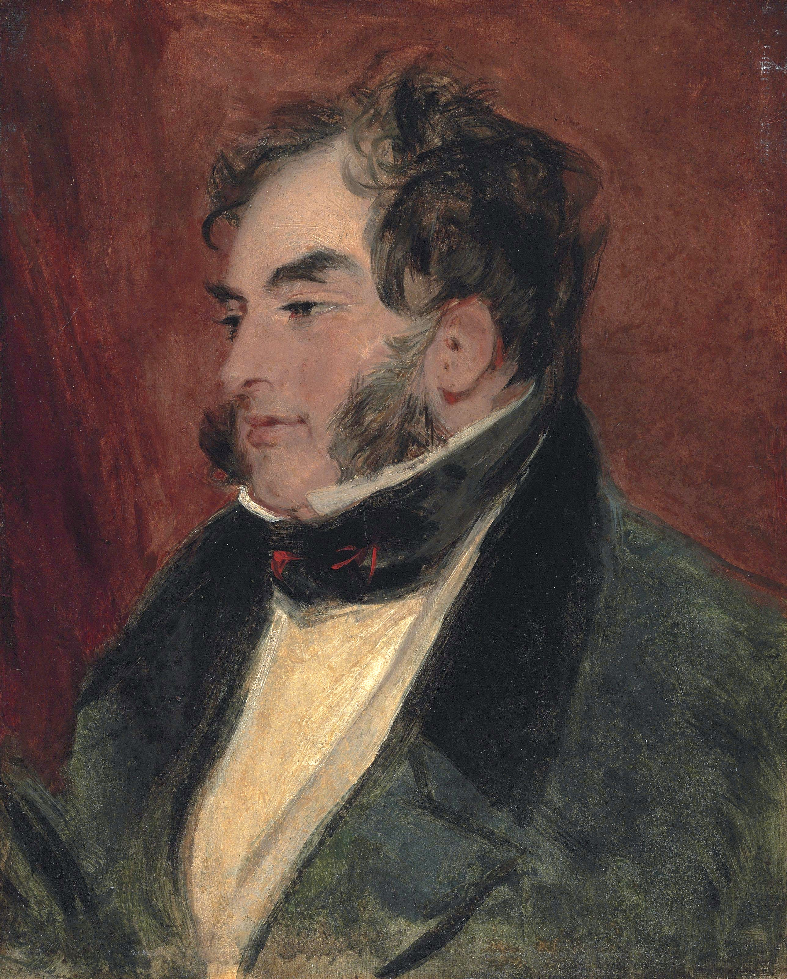 William Arden, 2nd Baron Alvanley oil on board 25.5 x 20.3 cm